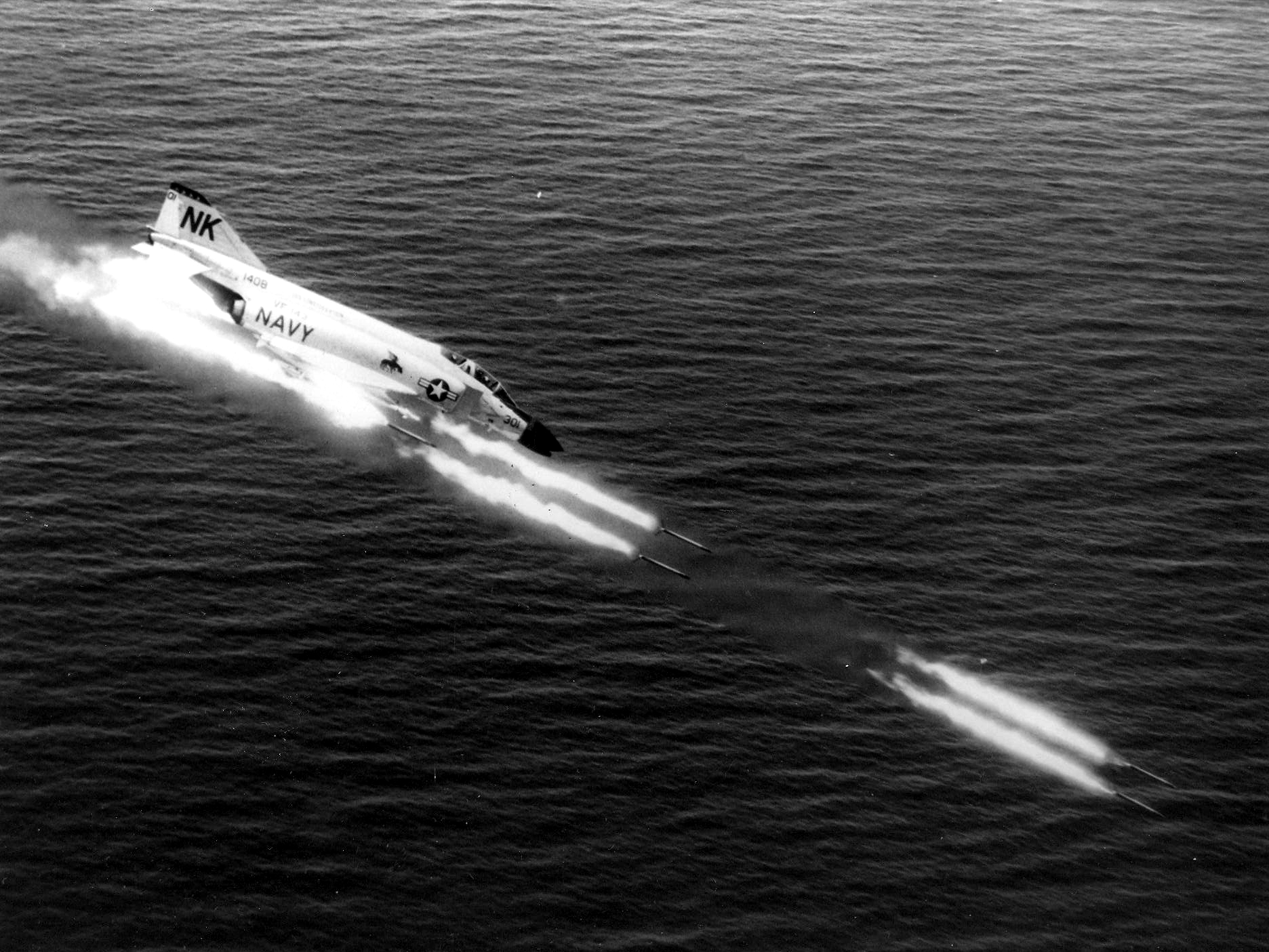 A U.S. Navy McDonnell F-4B-16-MC Phantom II (BuNo 151408) of Fighter Squadron 143 (VF-143) "Pukin´ Dogs" firing 12.7 cm (5 in) "Zuni"-rockets during an exercise in 1964. VF-143 was assigned to Attack Carrier Air Wing 14 (CVW-14) aboard the U.S. aircraft carrier USS Constellation (CVA-64) from 5 May 1964 to 1 February 1965. Aircraft of CVW-14 were among the first to fly strikes in the Vietnam War on 5 August 1964. The F-4B 151408 was later lost in an accident off California (USA) on 22 April 1967.